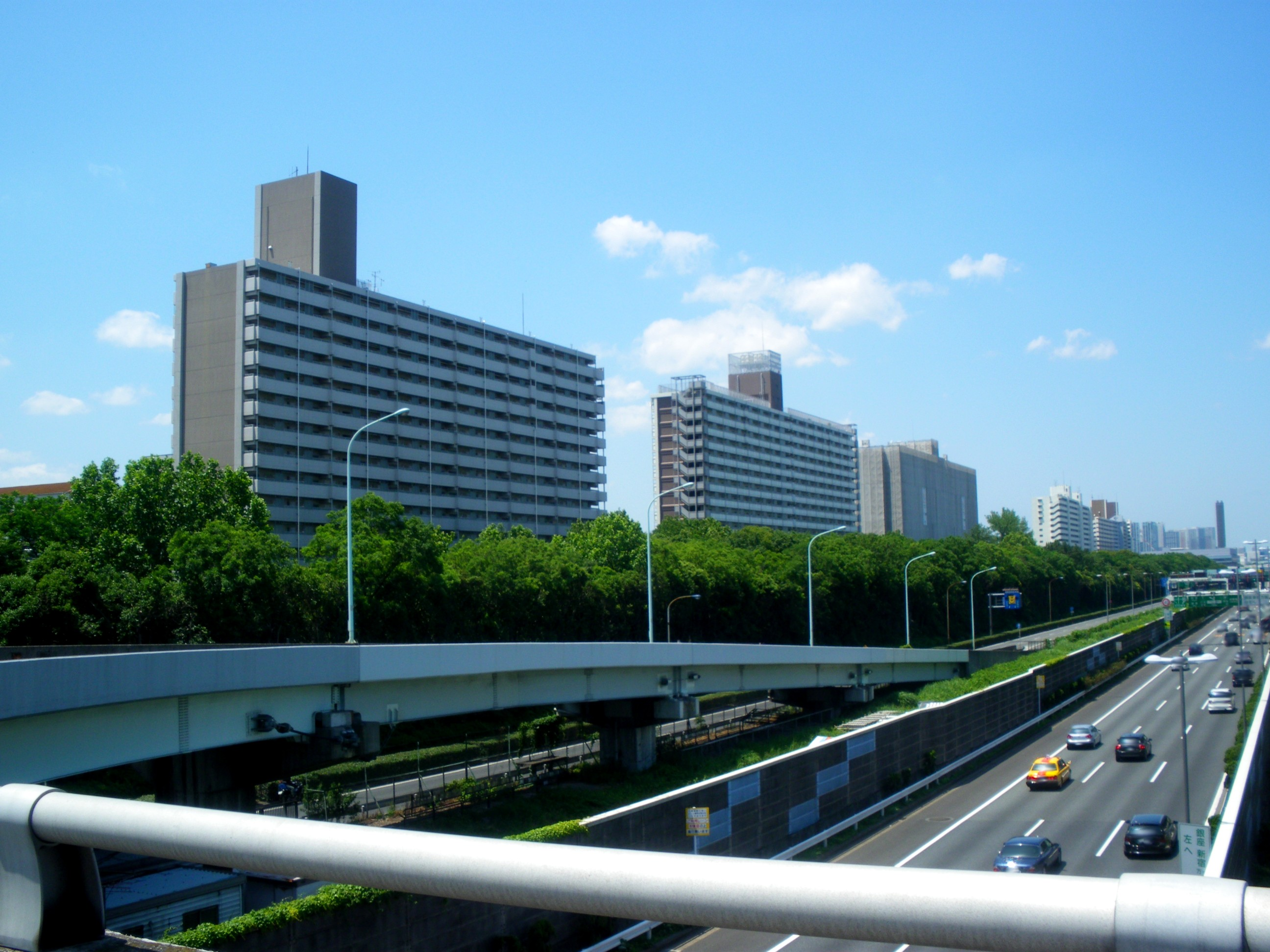 A photo of an overview of Yashio Park Town (apartment blocks in Shinagawa-ku) Yashio, Shinagawa-ku, Tokyo, Japan.